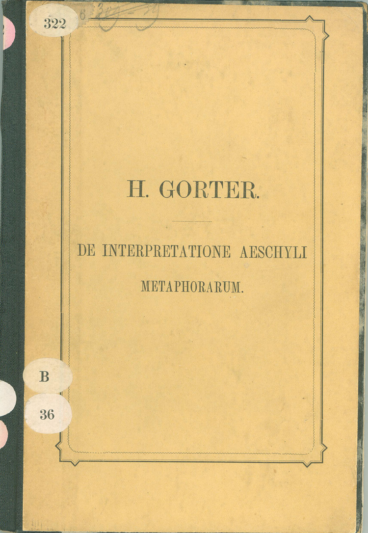 Herman Gorter: De interpretatione Aeschyli metaphorarum, Dutch PhD dissertation, Amsterdam, 1889